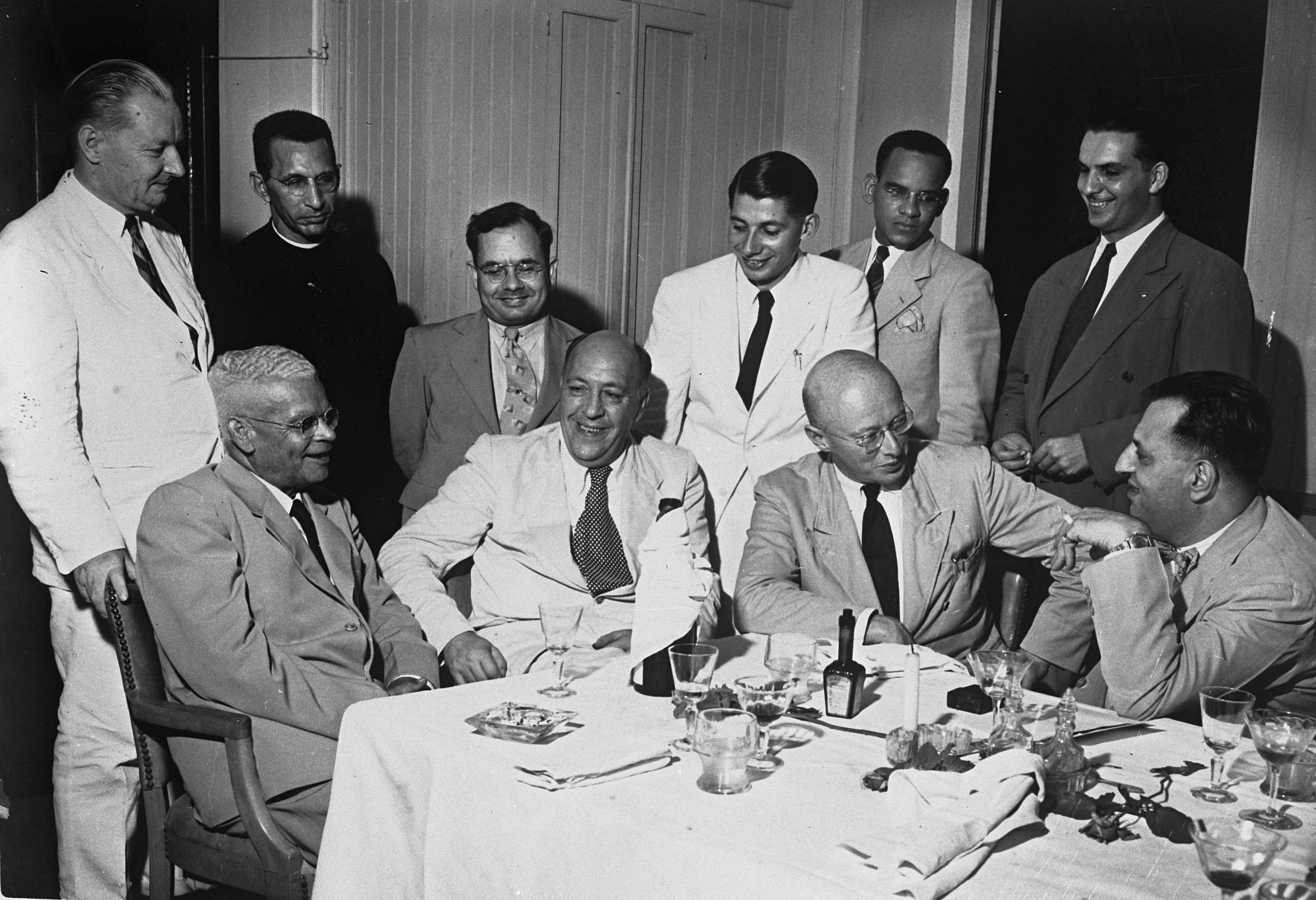 Dutch novelist Piet Bakker (sitting, second from left) and Dutch illustrator Jo Spier (sitting, third from left), 3 November 1947. Occasion unknown, possibly at a dinner party on the occasion of the publication of the 3rd edition of Bakker's book Jeugd in de Pijp (Elsevier, 1947)